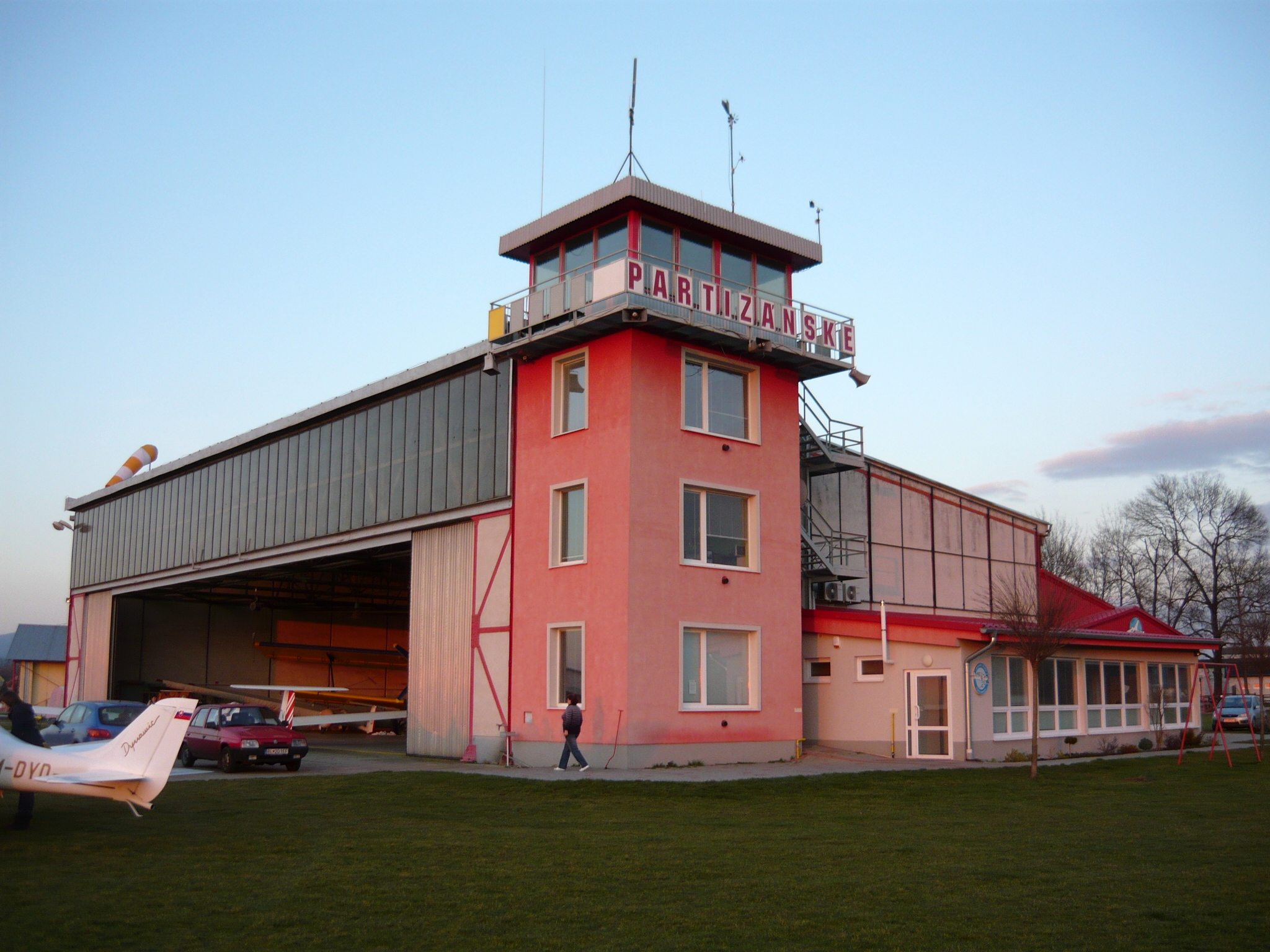 Partizánske airfield, Slovakia.